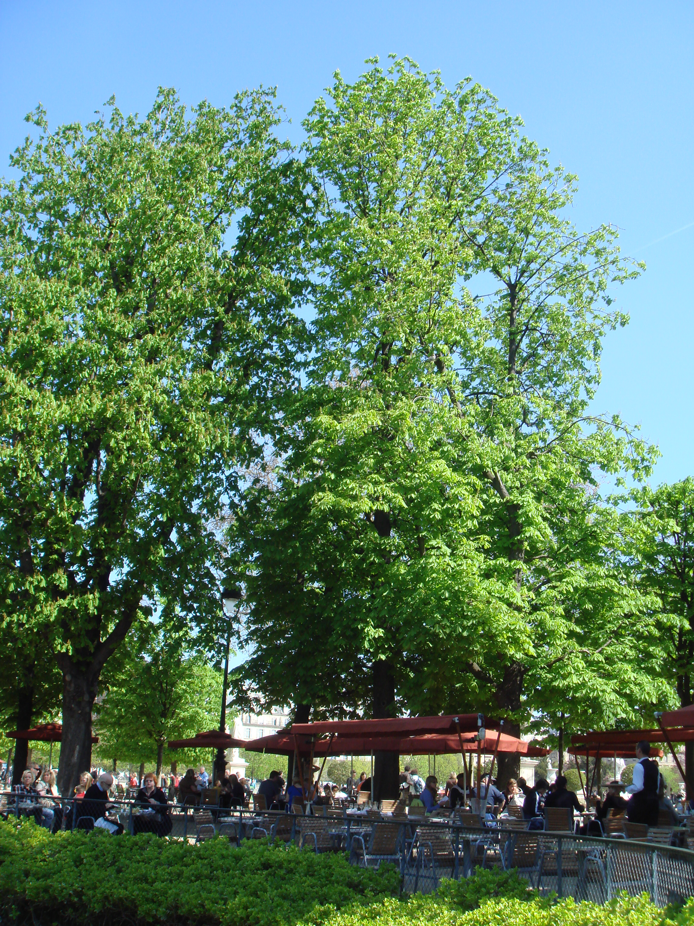 Cafe_de_Pomone_Jardin_des_Tuileries